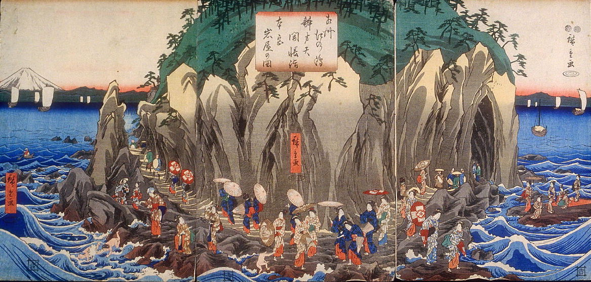 Pilgrimage to the Cave Shrine of Benzaiten by Hiroshige Ando, c. 1850. Sammai-tsuzuki, triptych. This is on Enoshima island.